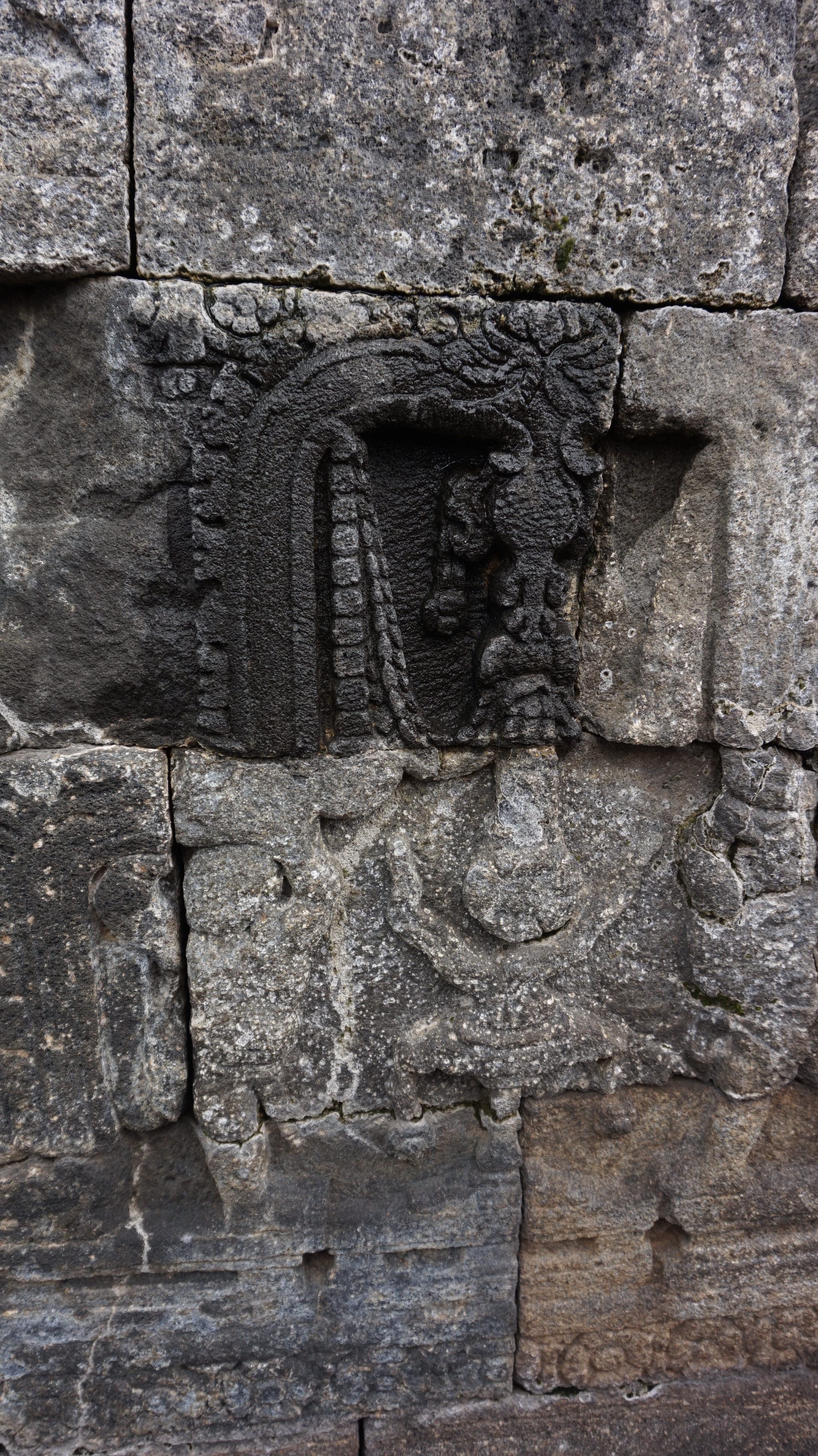 Evidence penjor tradition already existed in the archipelago before Borobudur was built